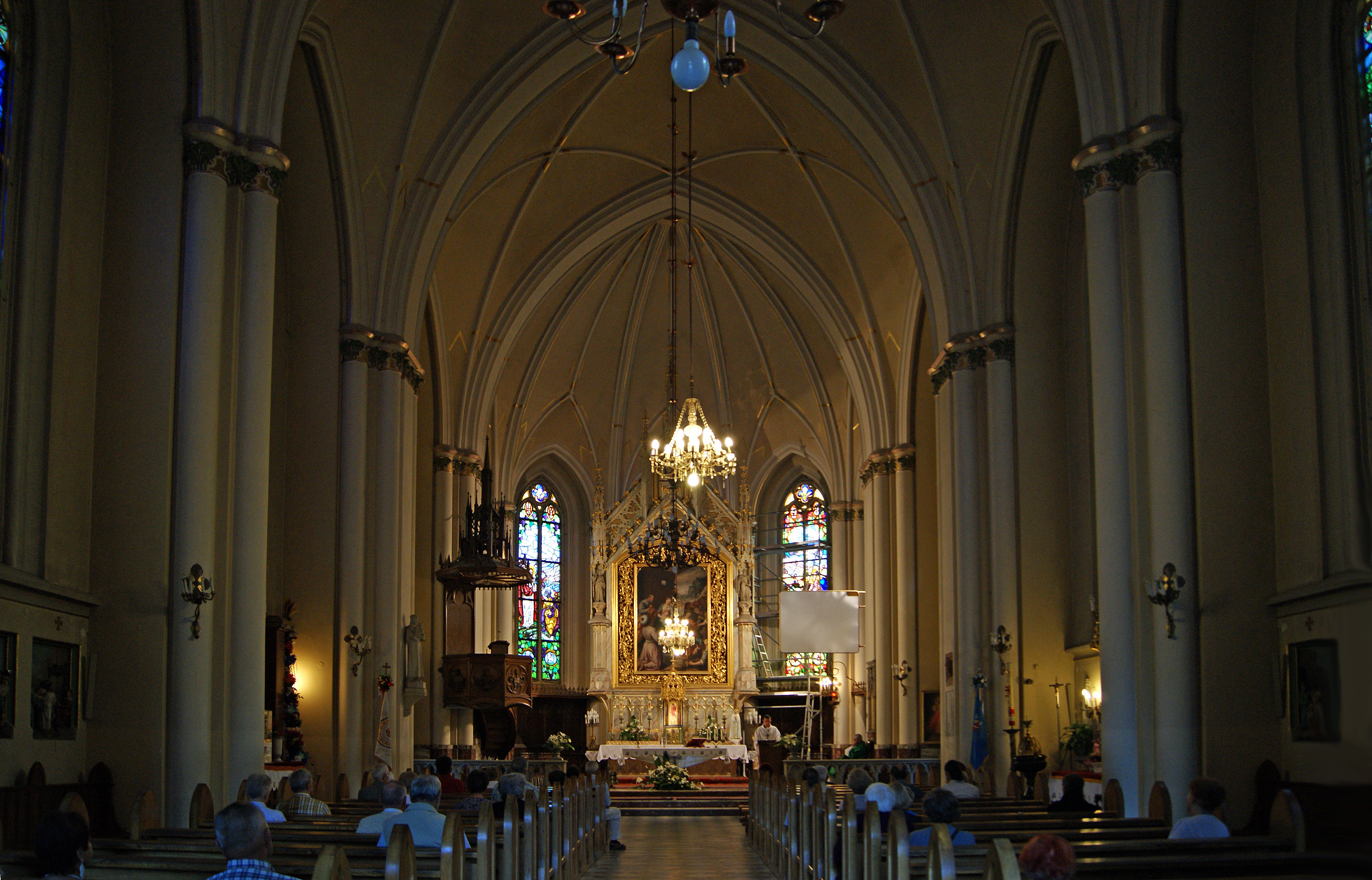 Church of StMartin of Tours (interior), 1 Grunwaldzka street, City of Krzeszowice, Kraków County, Poland